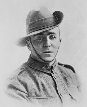 Stanley Robert McDougall VC ID Number: A05155 Date made: c 1917 Physical description: Black & white Summary: Studio portrait of Sergeant (Sgt) Stanley Robert McDougall VC MM, 47th Battalion. Sgt McDougall was awarded the Victoria Cross for 'most conspicuous bravery and devotion to duty when the enemy attacked' on 28 March 1918 at Dernacourt, France. Sgt McDougall realised that the enemy had entered the line and charged the second wave of the enemy as they tried to enter the line. He succeded in stopping the second wave, at which point he attacked the enemy that already gained entry, killing many and enabling the capture of thirty three prisoners, thus stopping their advance. Eight days later he repelled another enemy attack in the same spot, for which he was awarded the Military Medal. He returned to Australia and was discharged on 15 December 1918. Copyright: Copyright expired - public domain Copyright holder: Copyright Expired Related subject: Portraits; Victoria Cross Related place: Dernancourt Related conflict: First World War, 1914-1918